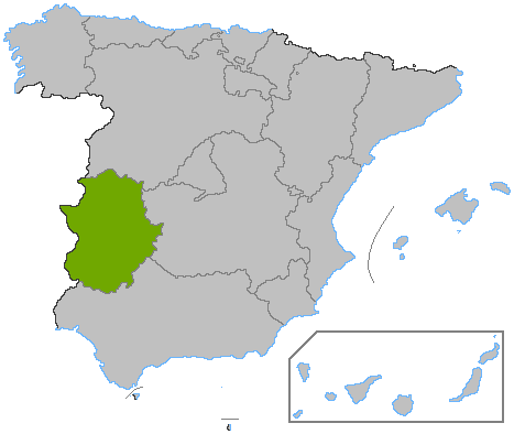 Location of Extremadura, in Spain.